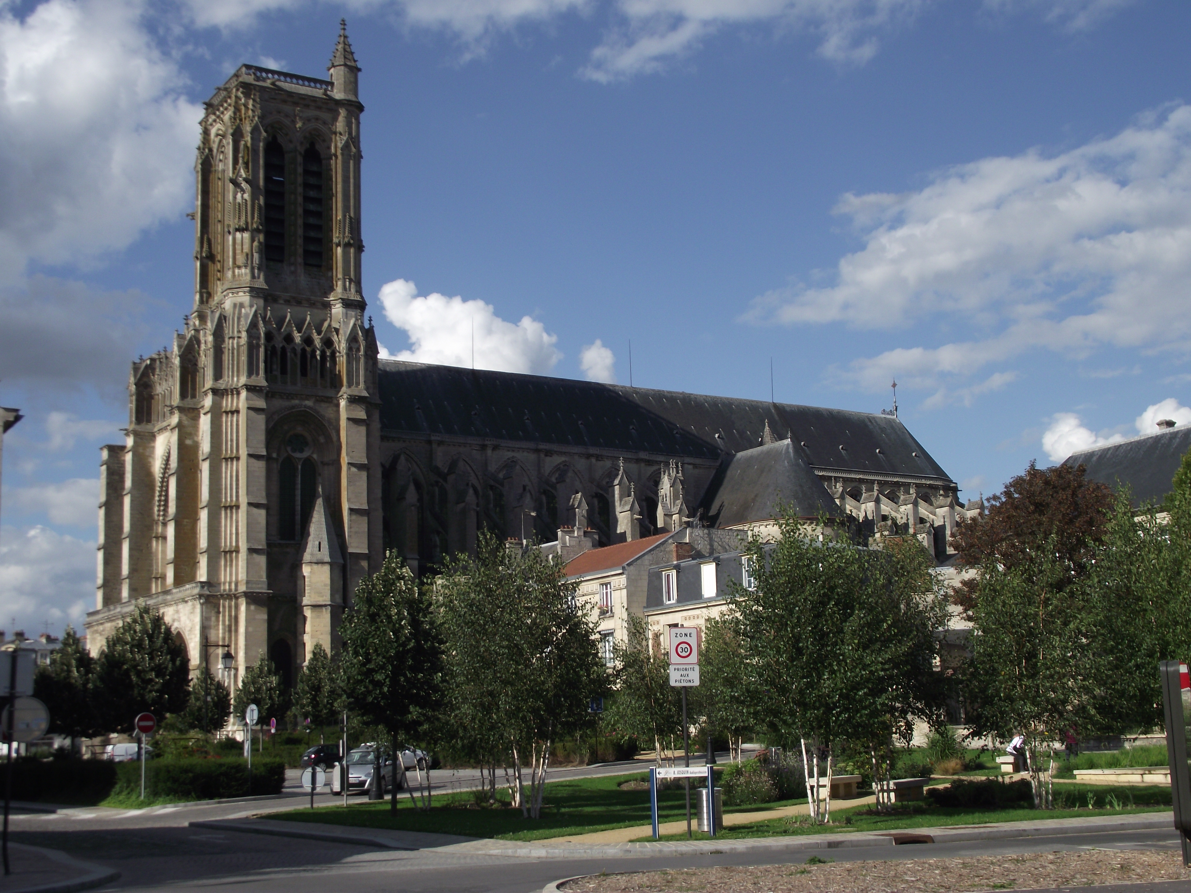 Soissons, vieuw with Cathedral